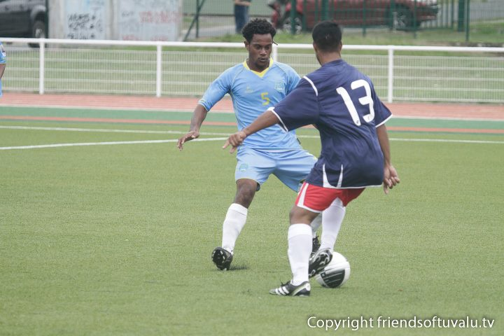 Takataka